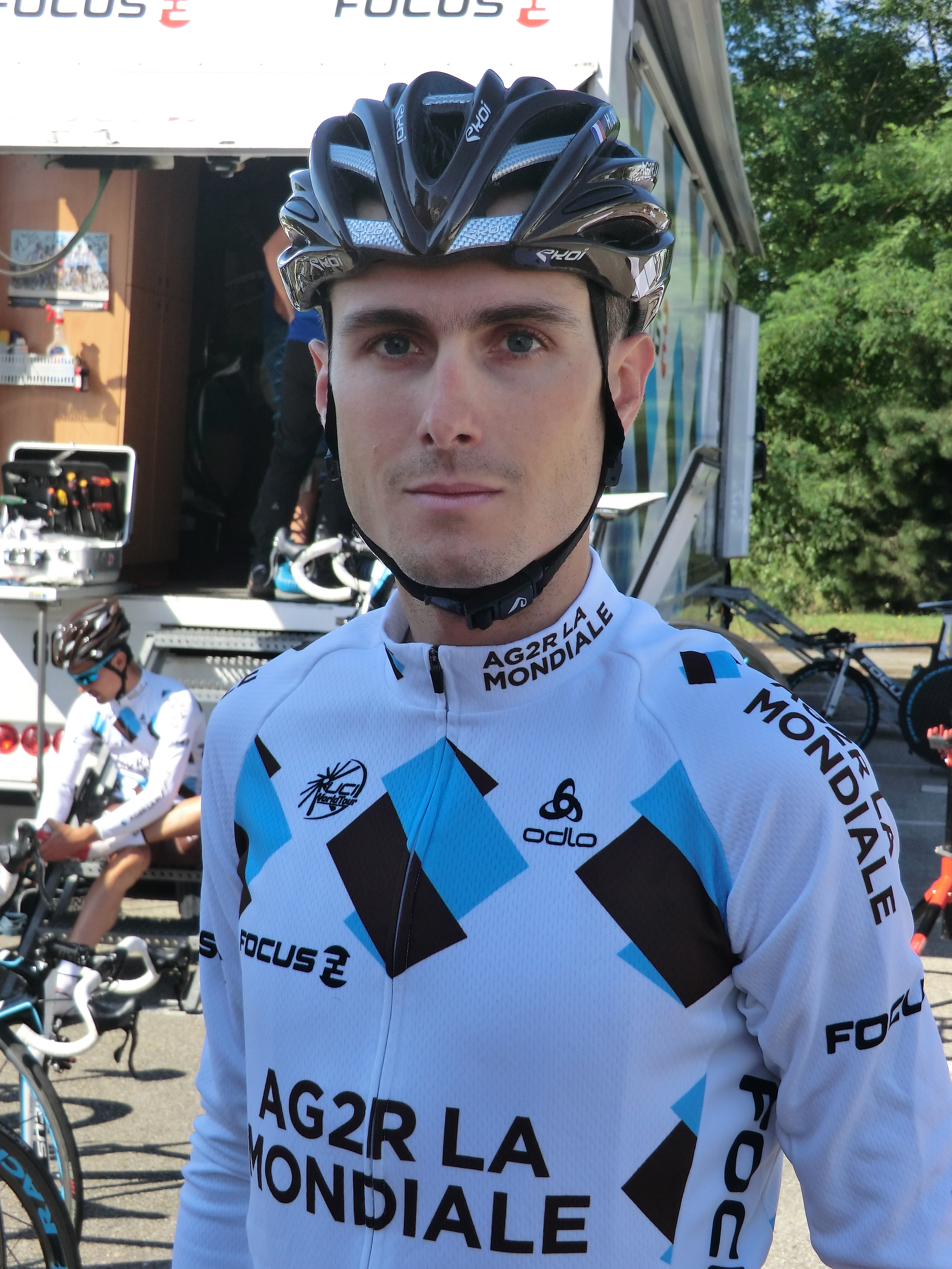 Hubert Dupont the morning of Prologue time trial of tour de l'Ain 2013 at the Hôtel Lyon-Est in Saint-Maurice-de-Beynost. Hubert Dupont is the final best regional cyclist of that competition.